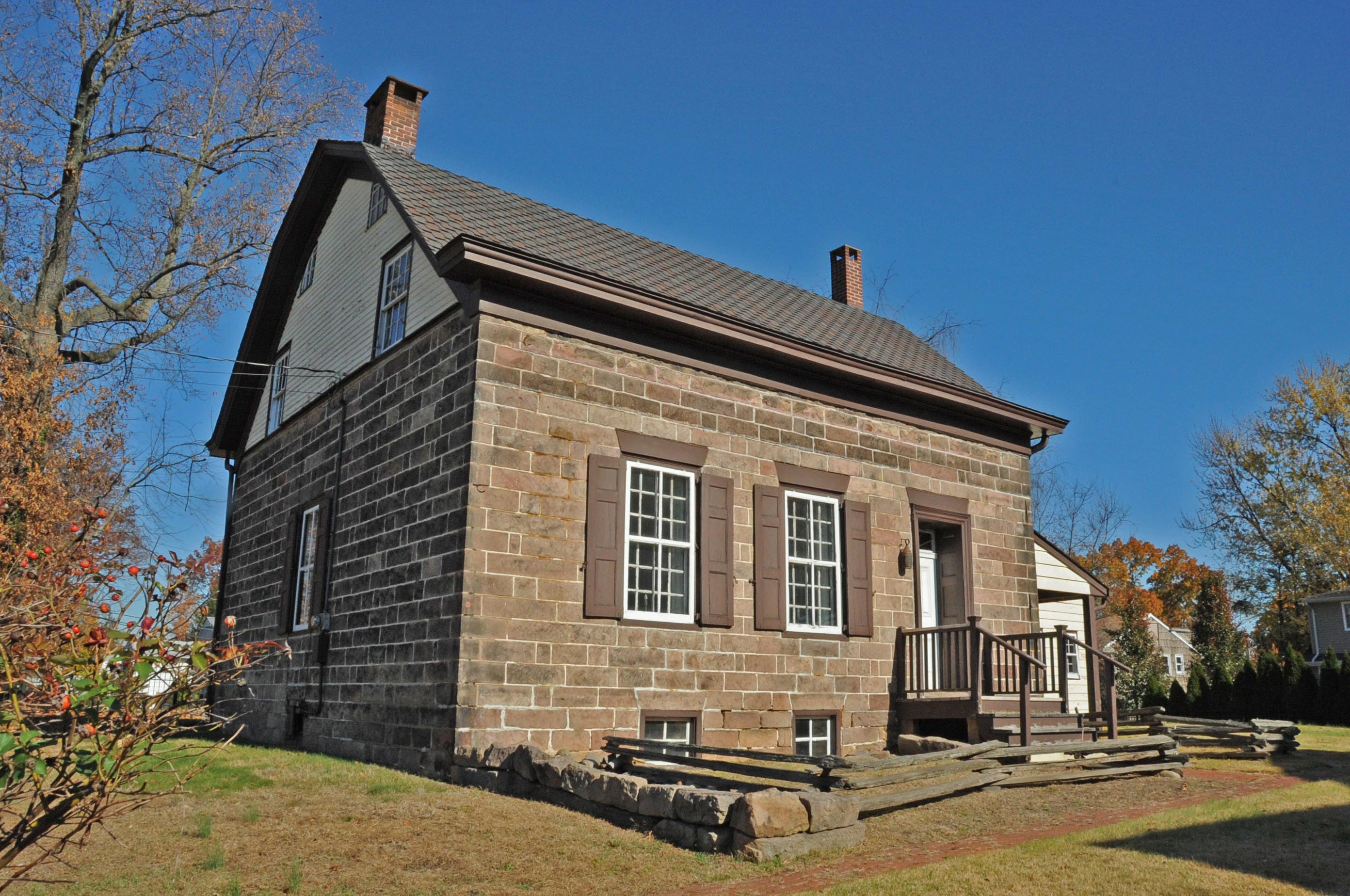 BUILT IN 1810; NO OTHER HISTORICAL DETAILS